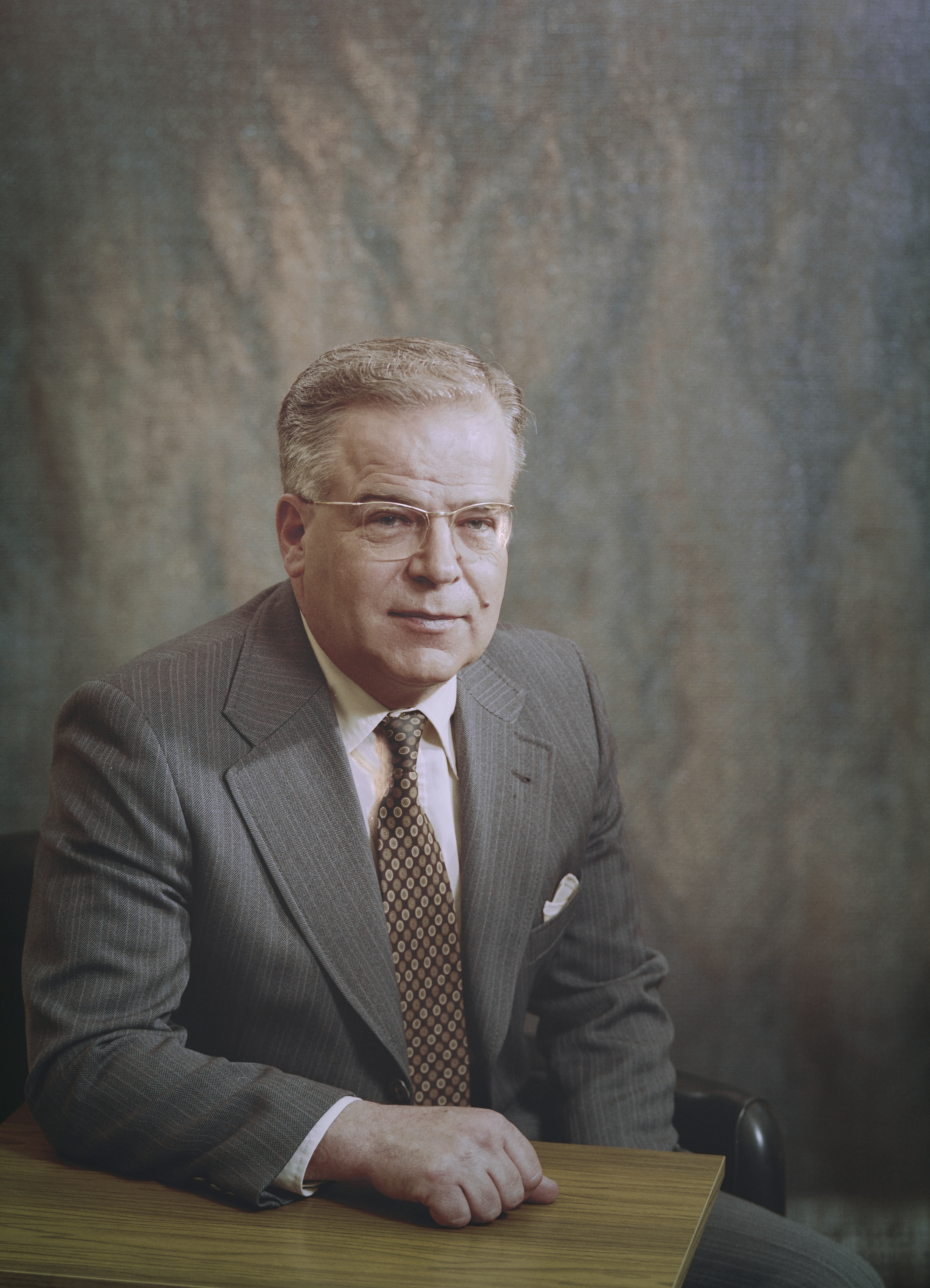 Photograph of the Finnish business executive Asko Tarkka (1929–).